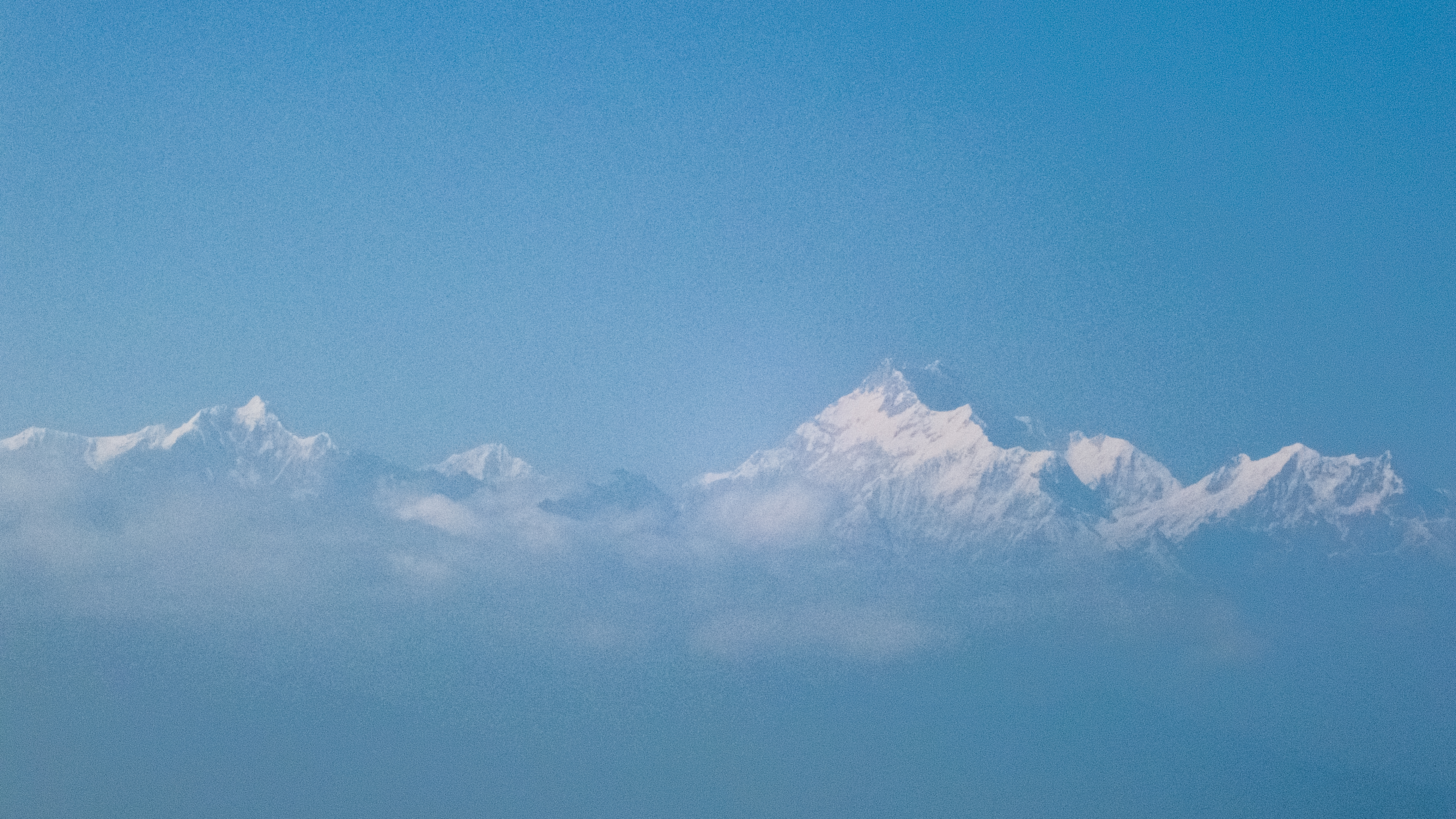 Kanchenjunga range as seen from Tashi view point, Gangtok.